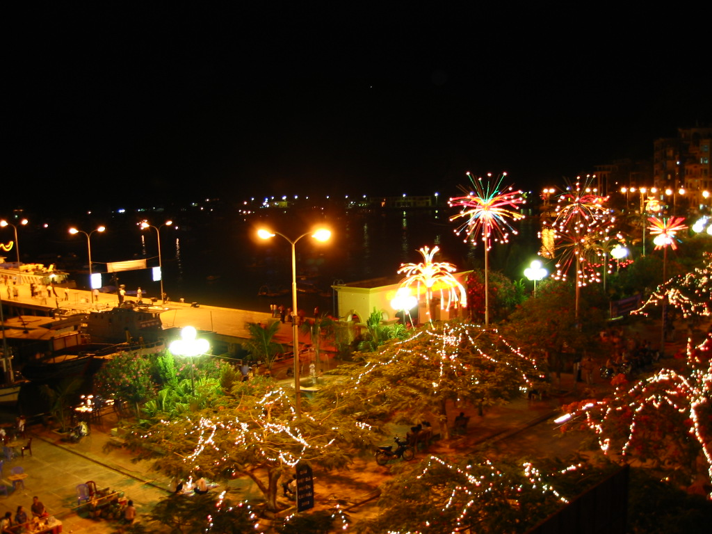 Cat Ba town (Vietnam) in night.